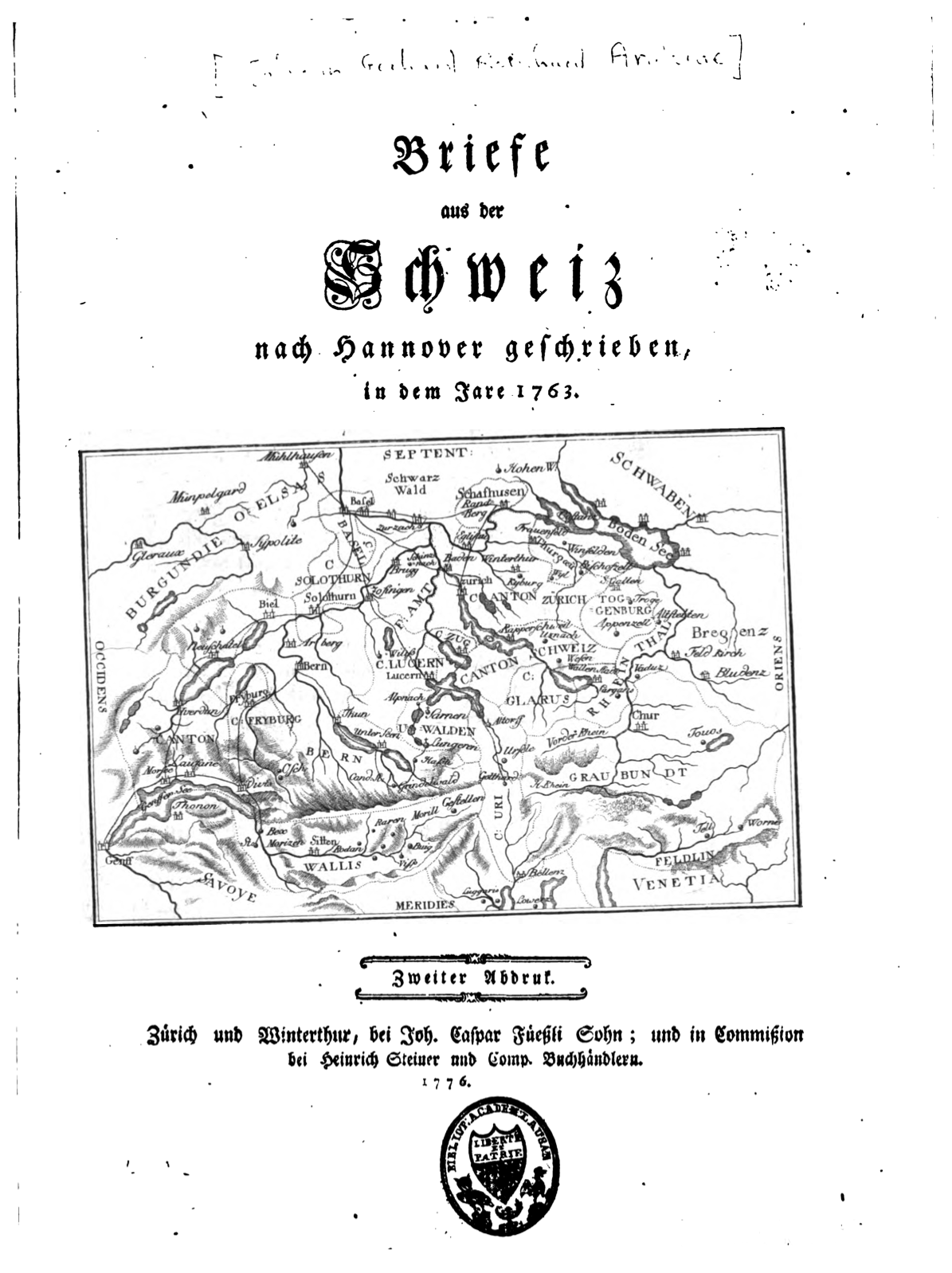 Book cover of "Briefe aus der Schweiz nach Hannover geschrieben" (1776) by Johann Gerhard Reinhard Andreae